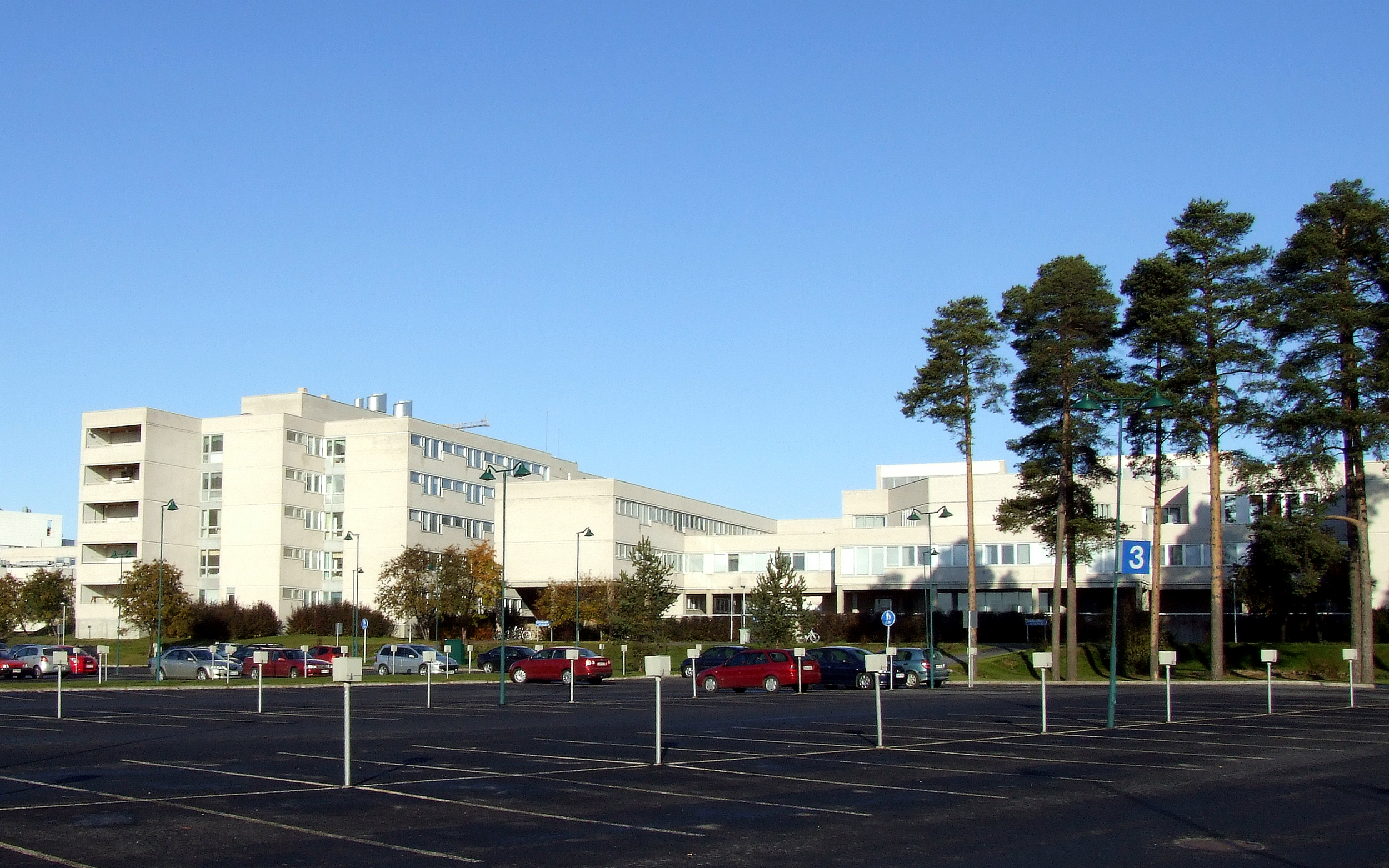 Oulu University Hospital buildings in Kontinkangas, Oulu, Finland.